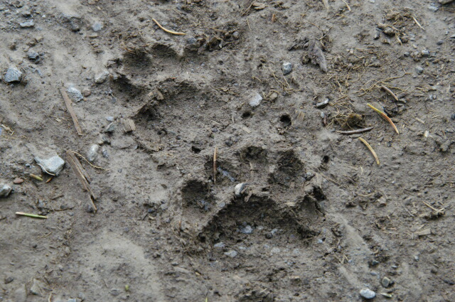 Meles meles tracks, from Commanster, Belgian High Ardennes (50°15'20``N,5°59'58``E)